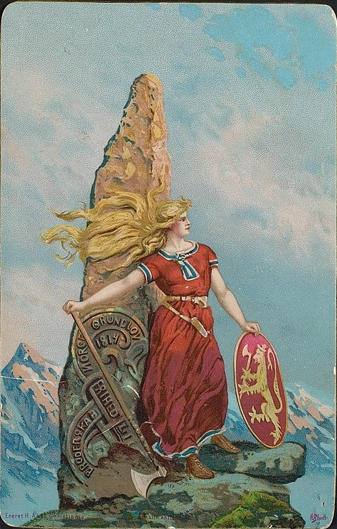 Norwegian nationalistic postcard drawn by Andreas Bloch.